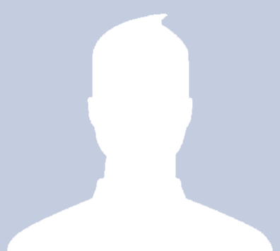 Edited Silhouette of a man, similar to the default silhouette Facebook.